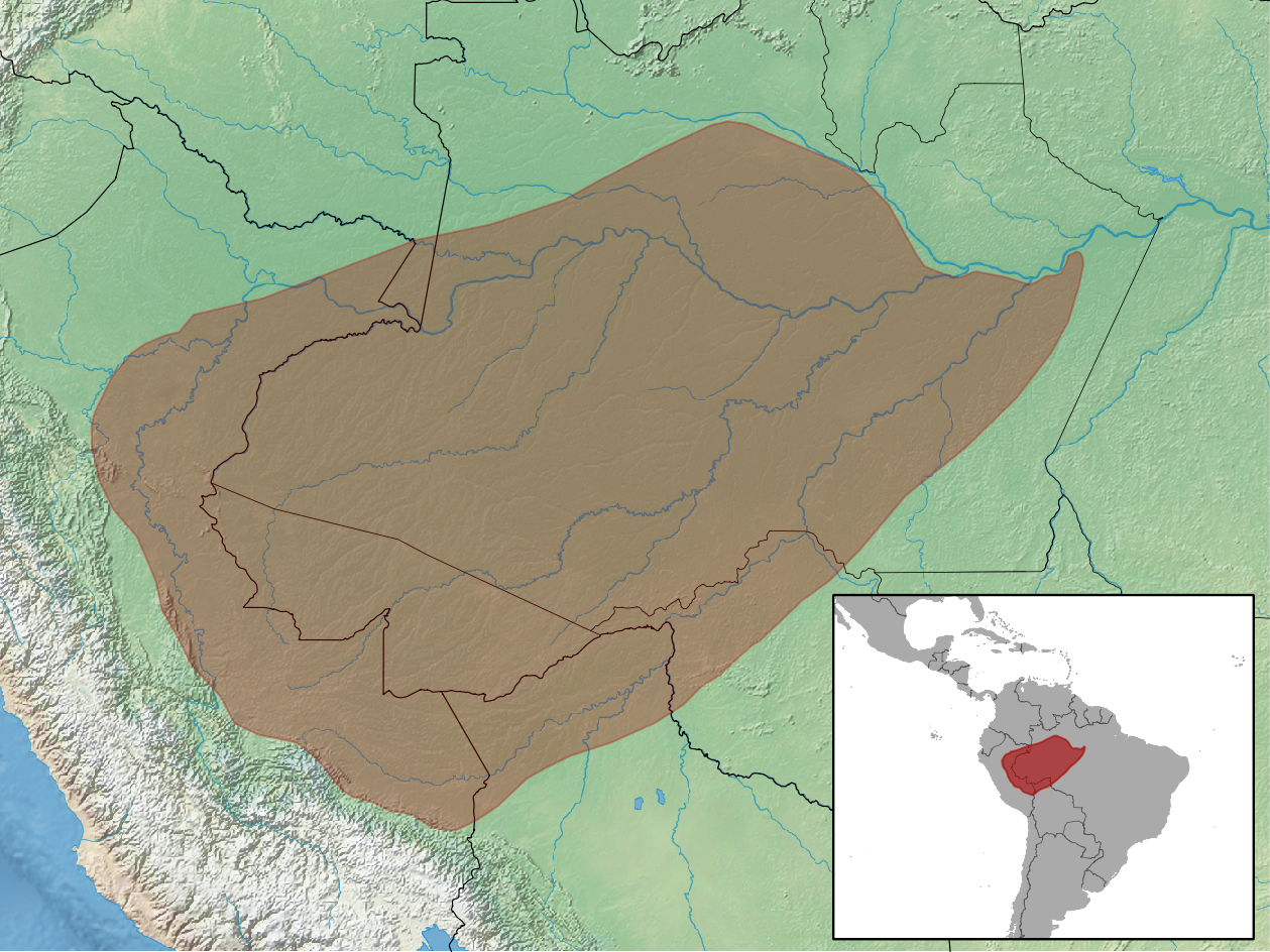 geographic distribution of Proechimys steerei